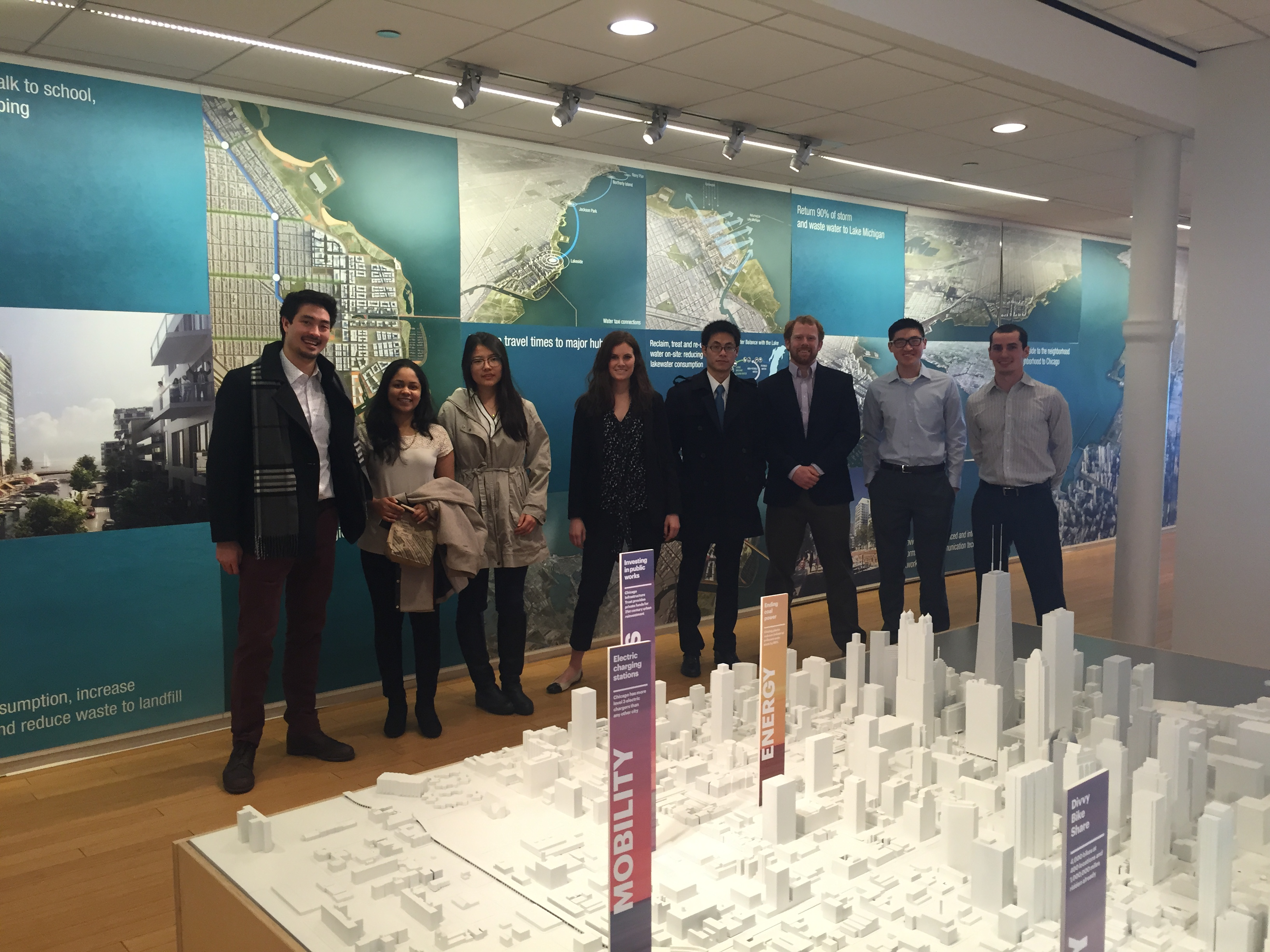 Members of Illinois Solar Decathlon attending a meeting with architecture firm Skidmore Owings and Merrill, LLP in Chicago, IL.